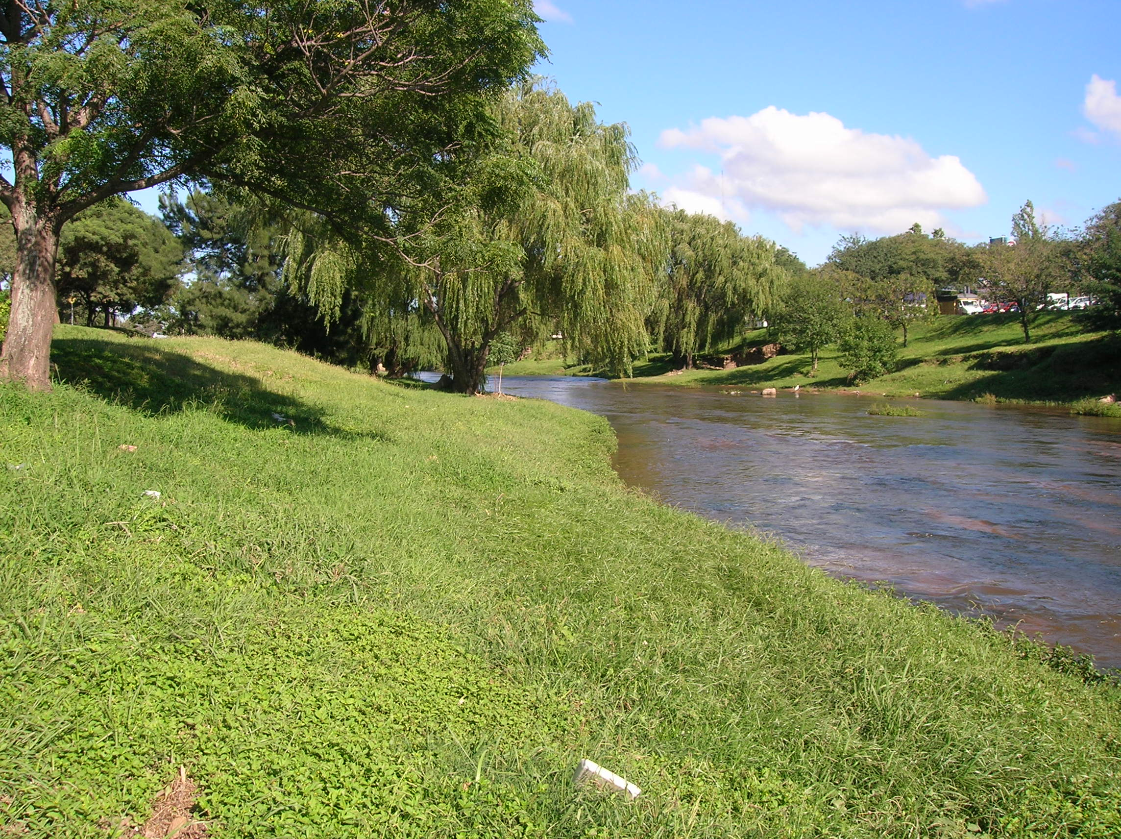 Suquía river near to Tablada Bridge.